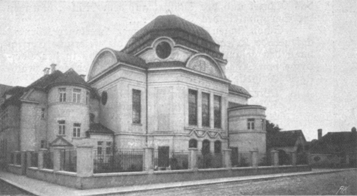 Photo of the synagogue in St. Pölten from the year of its inauguration in 1913.